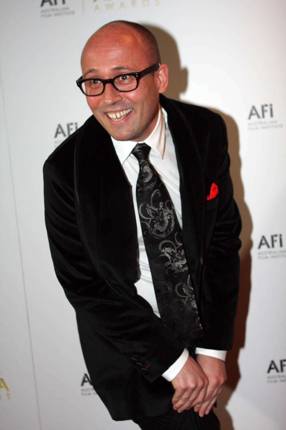 Adam Elliot, 2012, AACTA Awards Results From Sydney, Australia.